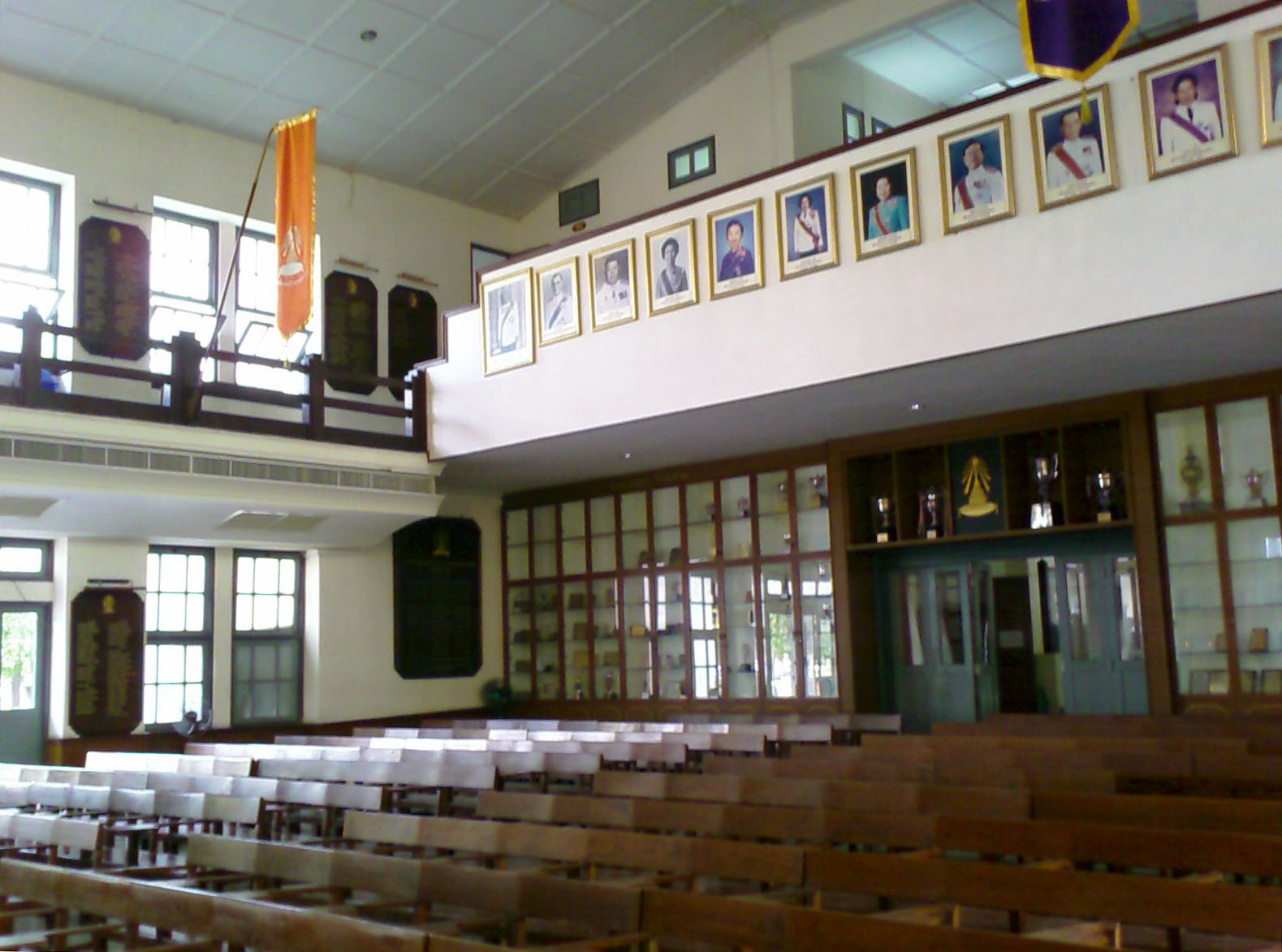 Room 111, Triam Udom Suksa School. Displayed are (in the case to the rear,) trophies won by school students, (on the side walls,) plaques bearing the names of top graduates, King's Scholarship recipients and International Science Olympiad medallists, (on the upper level,) portraits of former directors, and (also on the upper level,) banners depicting the colours of the class buildings.